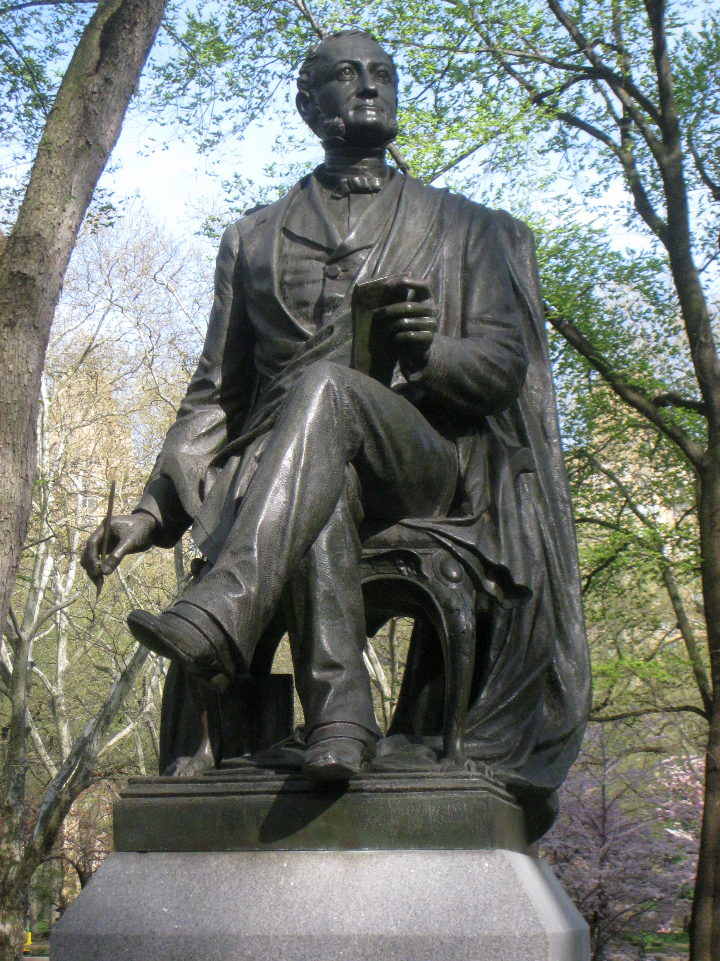 Fitz-Greene Halleck statue by James MacDonald, Central Park, New York City, New York, USA.